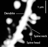 Spines on the dendrite of a medium spiny striatal neuron. The image was obtained by expressing Enhanced Green Fluorescent Protein (EGFP) in the neurons and imaging them using a laser scanning two photon microscope